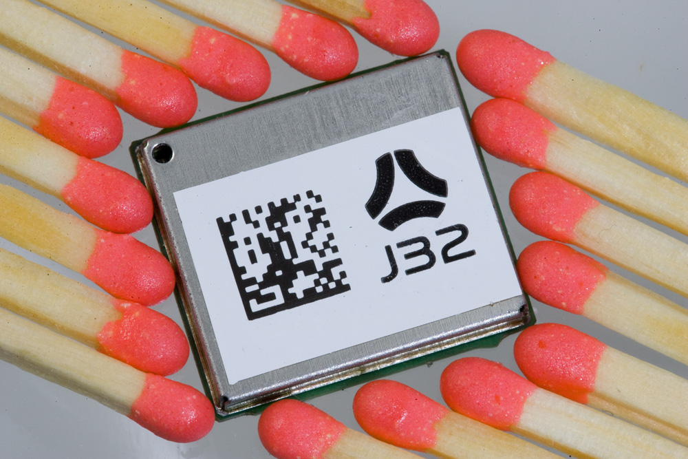 Navman J32